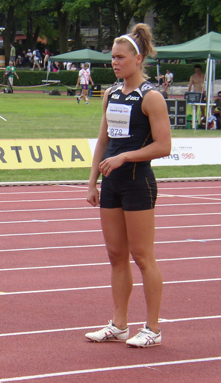 Athlete Helga Margrét Thorsteinsdóttir of Iceland prepares for her attempt in long jump during women's heptathlon at 5th edition of the TNT - Fortuna Meeting (IAAF World Combined Events Challenge Meeting, Sletiště Stadium, Kladno, Czech Republic, 16 June 2011, 11:50). Helga scored 5856 points in Kladno, just 22 pts. short of her personal best (set at 2009 edition of the same meeting).